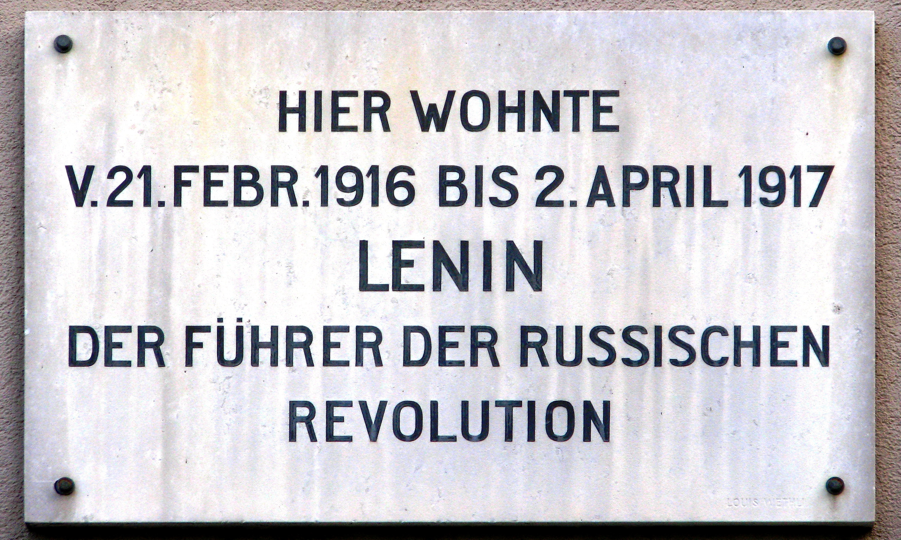 Zürich, Spiegelgasse 14: Memorial plate at the former home (21st Febr. 1916 - 2nd April 1917) of Wladimir Iljitsch Uljanow Lenin (* 1870; † 1924).